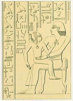 Prince Wadjmose seated on the lap of his tutor Paheri